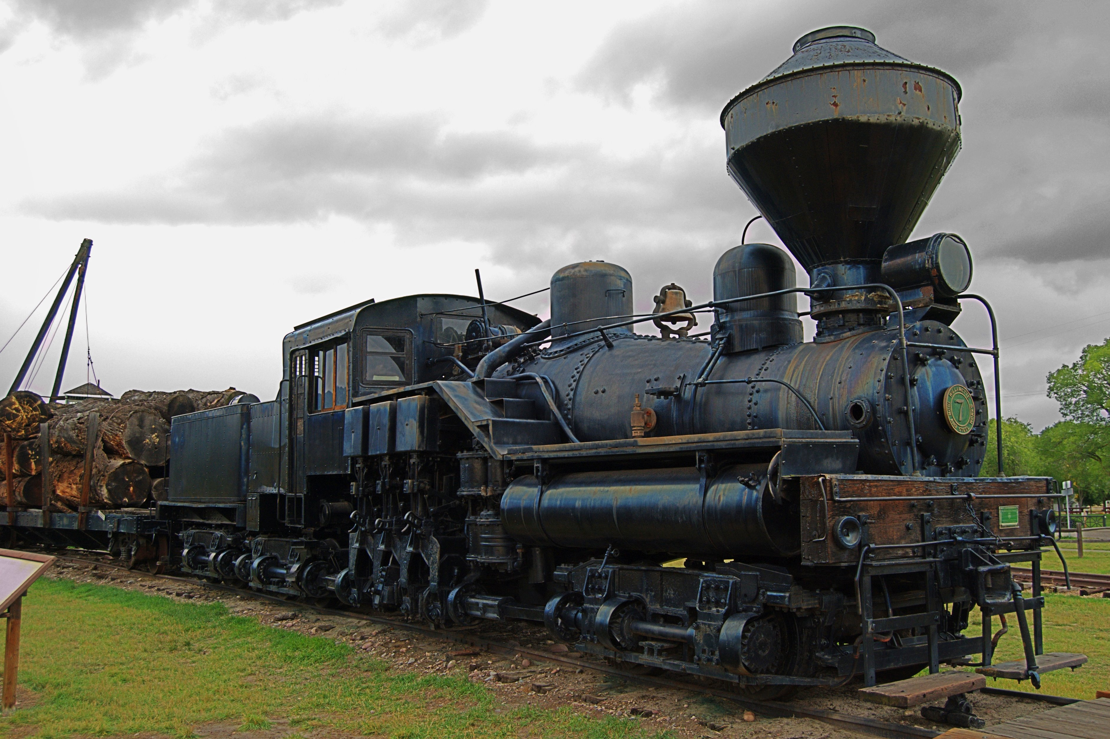 Willamette locomotive, No 7; on static display at the Fort Missoula Museum. According to this is a 70-ton class, and was used by Anaconda Copper. It's the one coal burner of this model; the rest were oil burning. As such, it would not have hauled timber as shown.